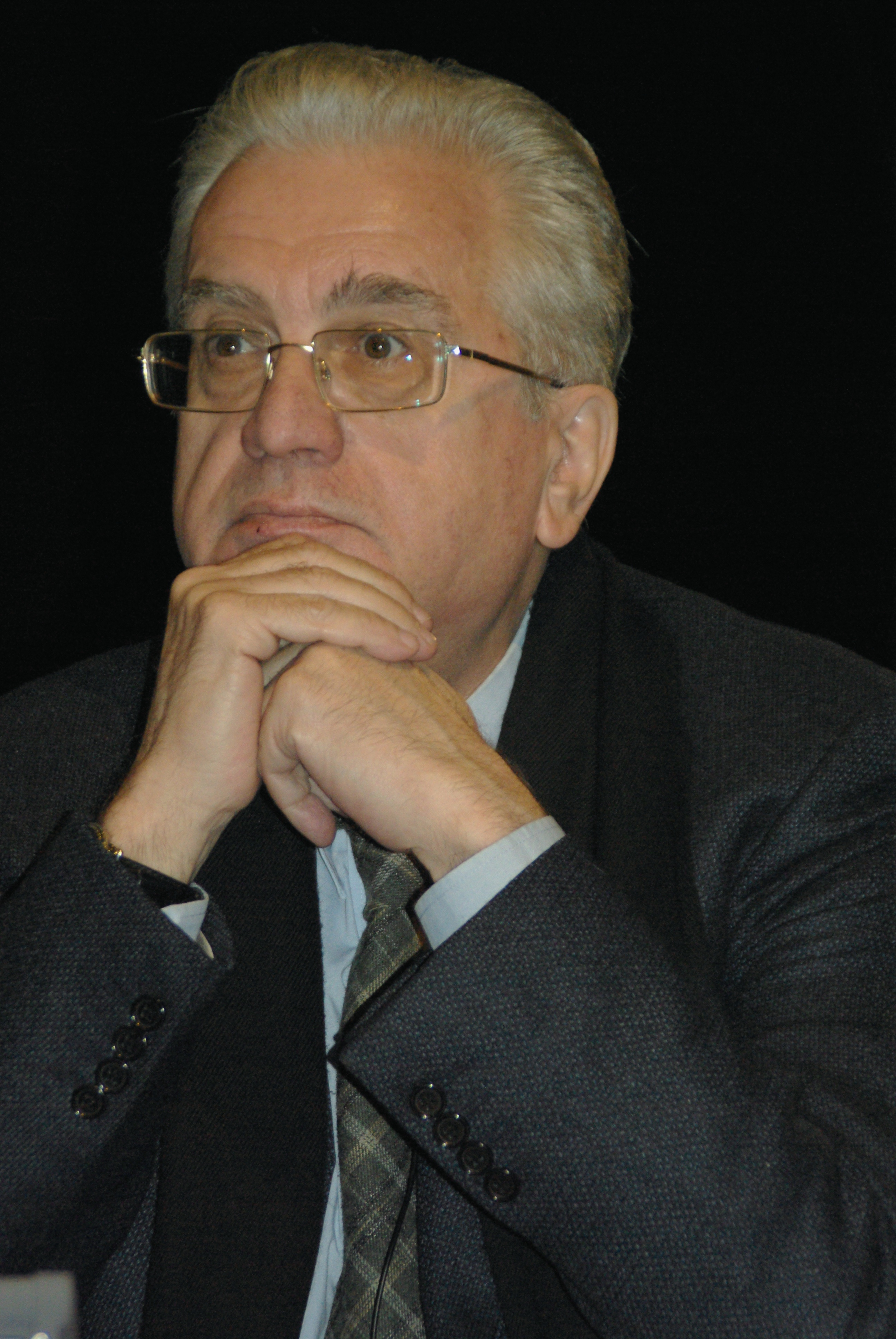 Mikhail Piotrovsky, director of the Hermitage Museum, at the 2 Moscow Biennale of Architecture, 2010